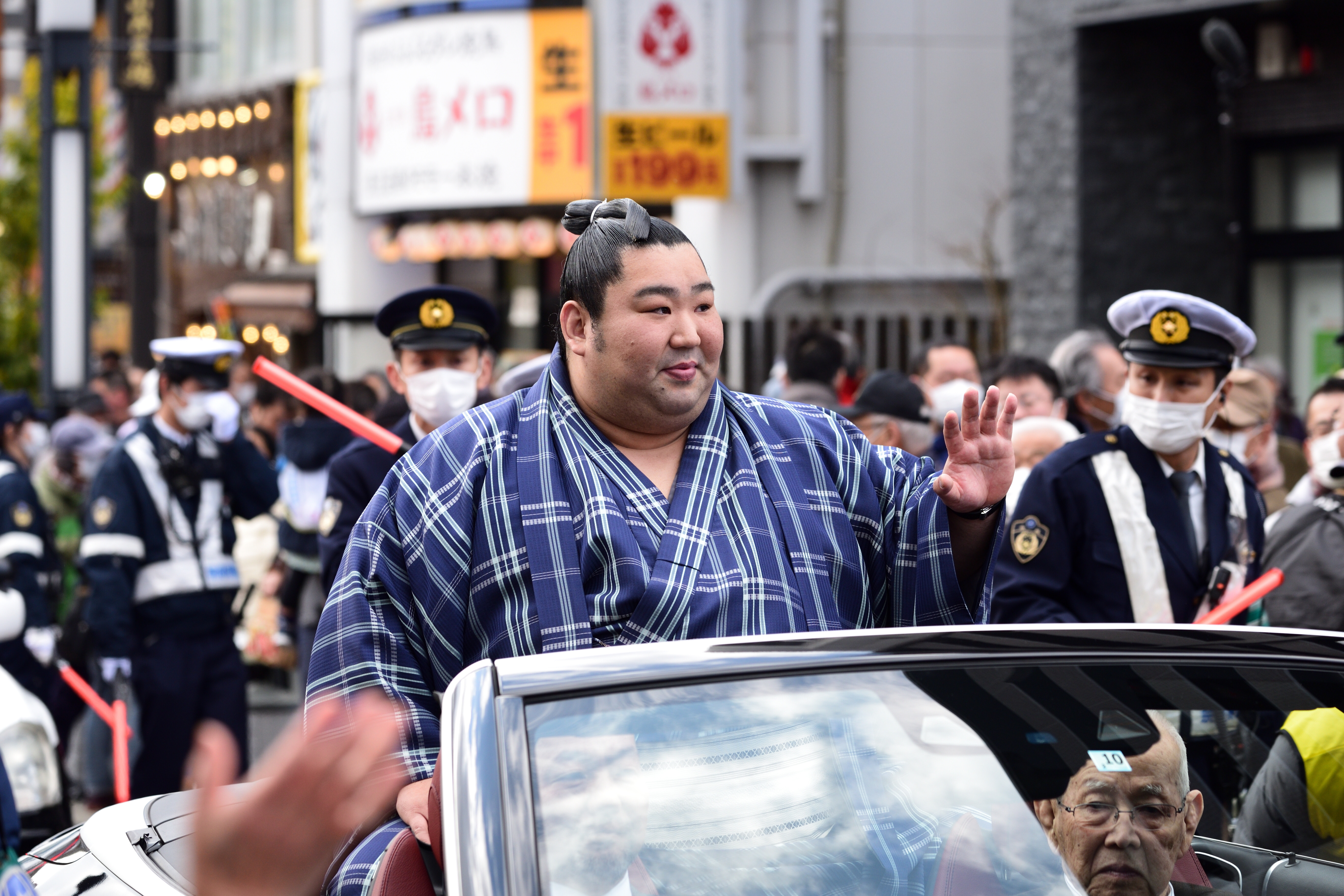 Makoto Tokushoryu on the victory parade of the first grand tournament of 2020